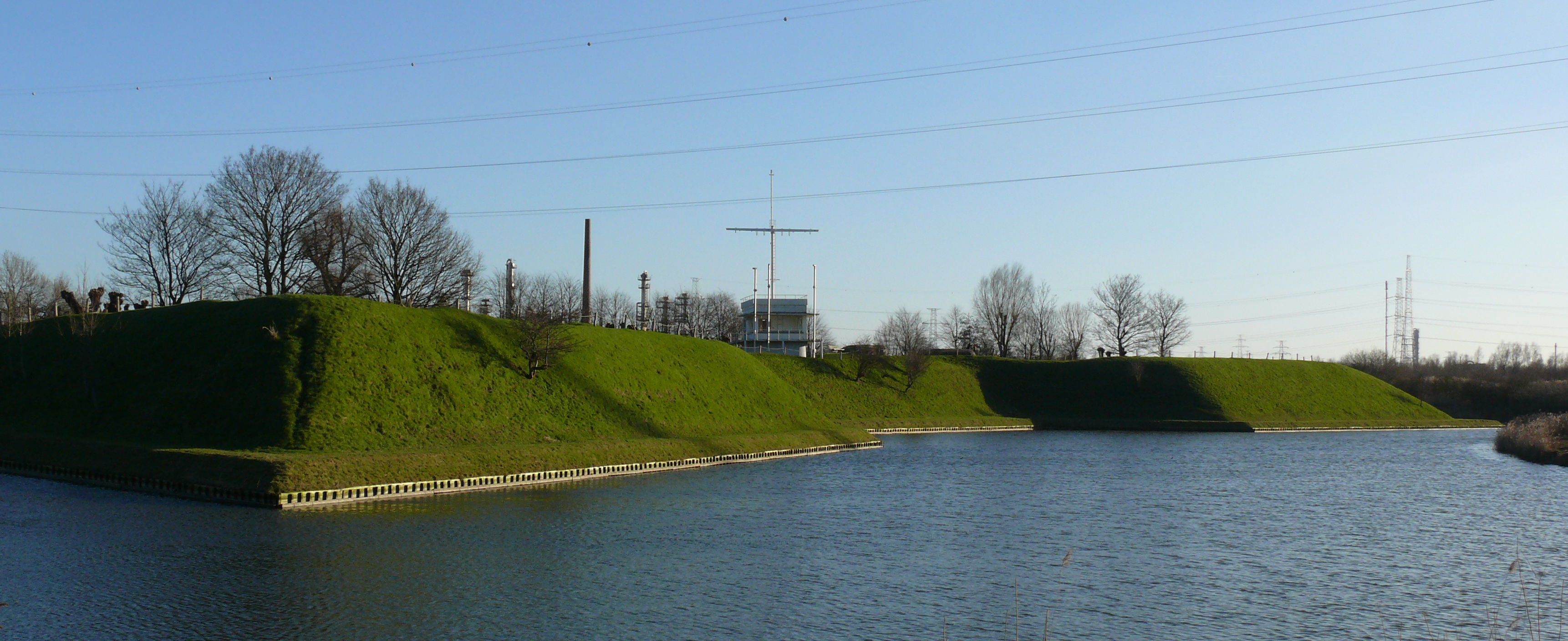 Fort Liefkenshoek is a fortification on the left bank of the Scheldt near Antwerp. The bastions are clearly visible.